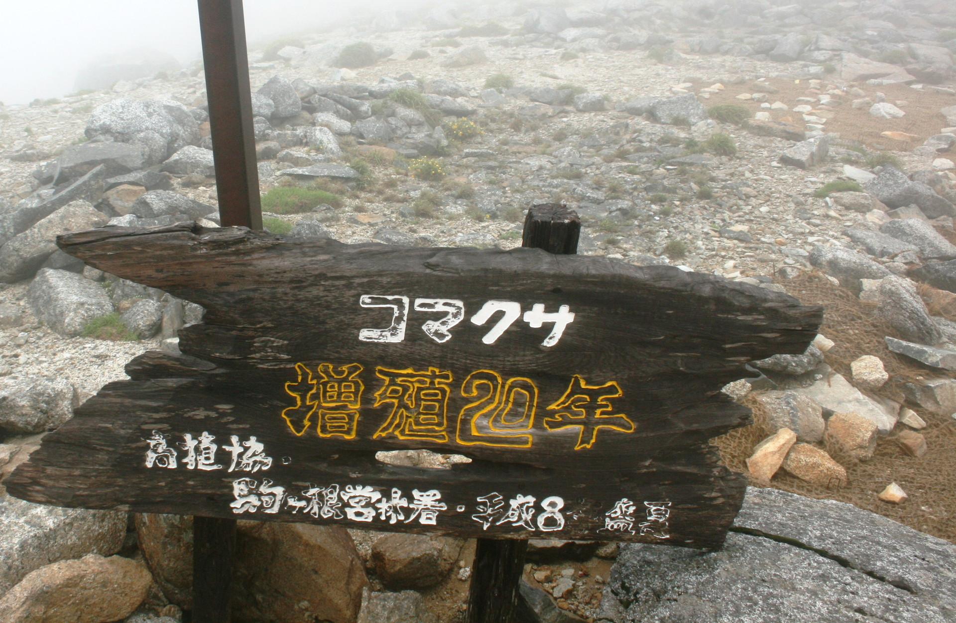 Dicentra peregrina garden in Mount Kisokoma